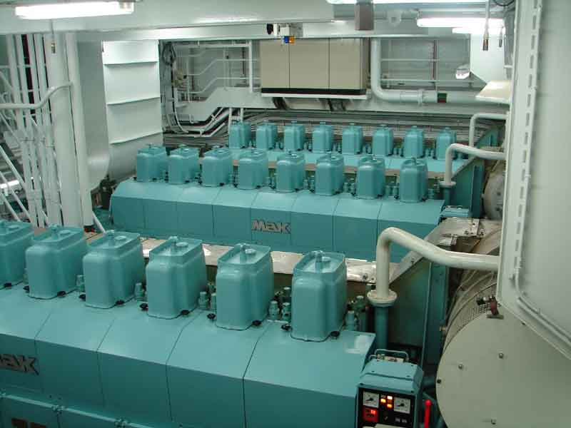 Main engines of the salvage tug Abeille Bourbon. There are four Mak 8M32C, 4000 kW each, for propulsion and firefighting.